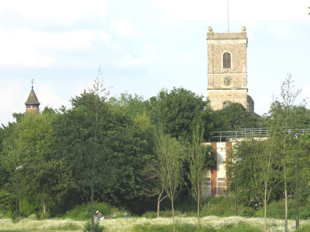 St Mary's church from the south-west. The view in 2008 from Ladywell Fields. Compare the historic view 65149.